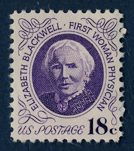 u.s. postage stamp of 1974, depicting Elizabeth Blackwell